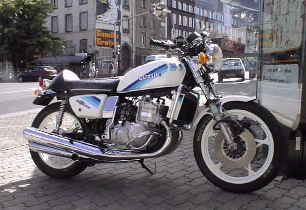 Suzuki GT 750